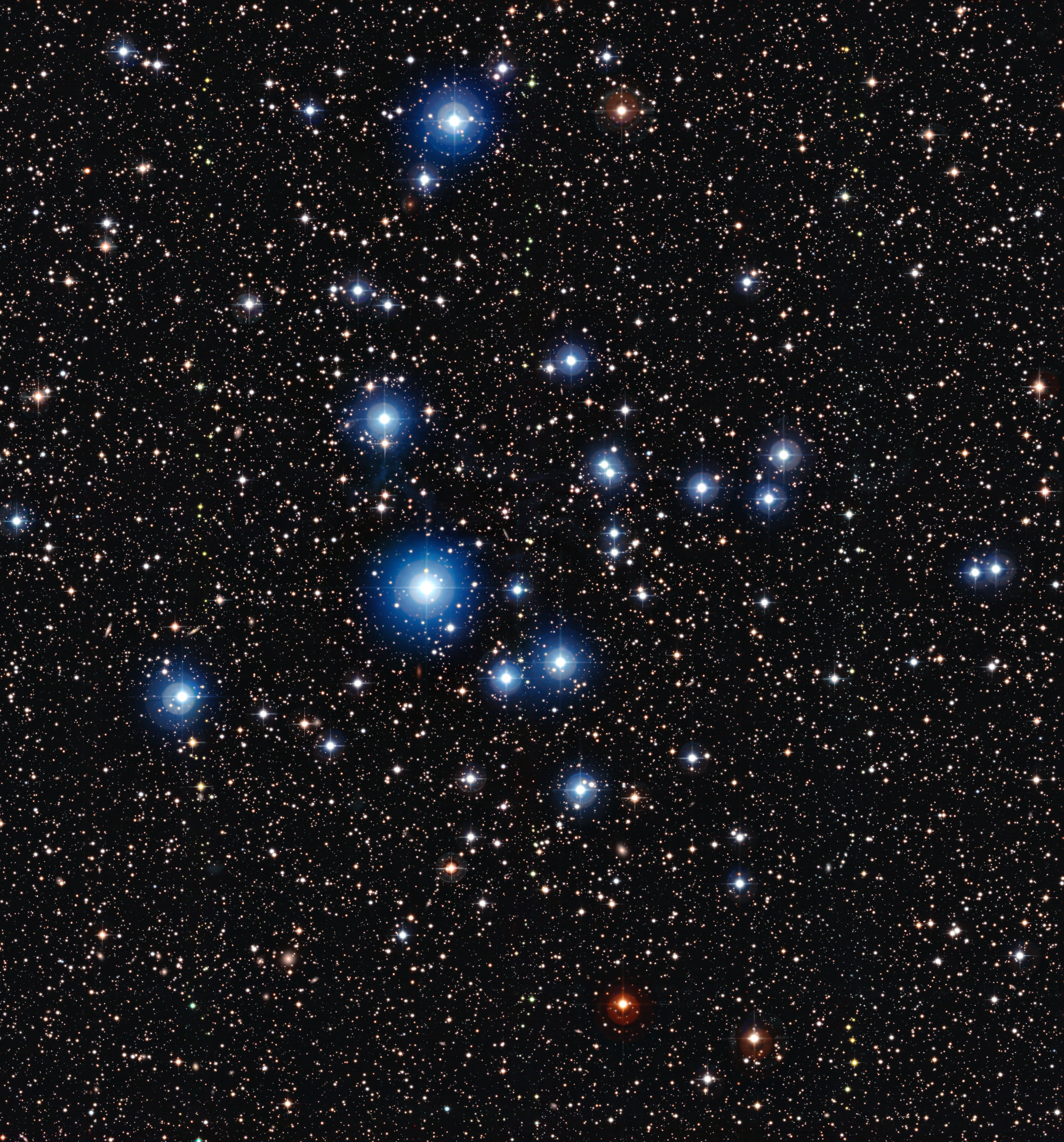 This image from the Wide Field Imager on the MPG/ESO 2.2-metre telescope at ESO’s La Silla Observatory in Chile, shows the bright open star cluster NGC 2547. Between the bright stars, far away in the background of the image, many remote galaxies can be seen, some with clearly spiral shapes.